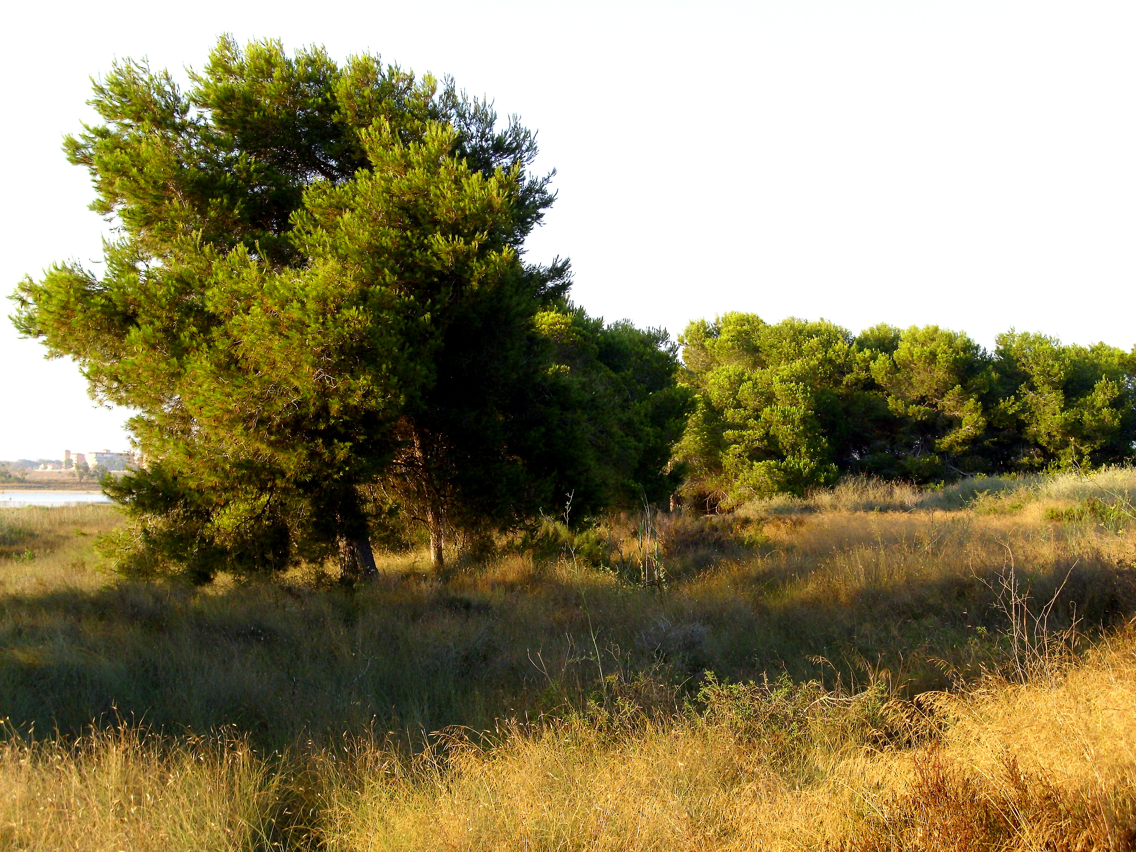 Pinus halepensis habit, La Mata, Torrevieja, Alicante, Spain